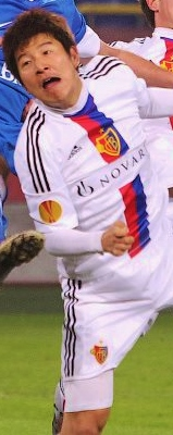 Park Joo-Ho